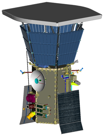 Solar Probe Plus shown with solar array panels in stowed position.